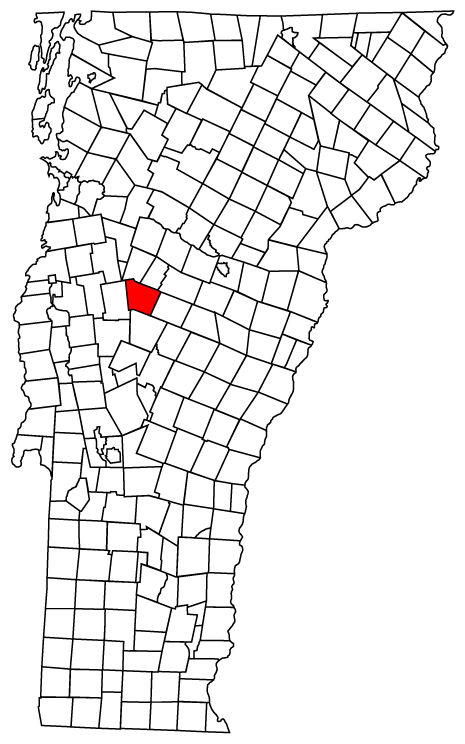 Map of Vermont towns with Warren highlighted